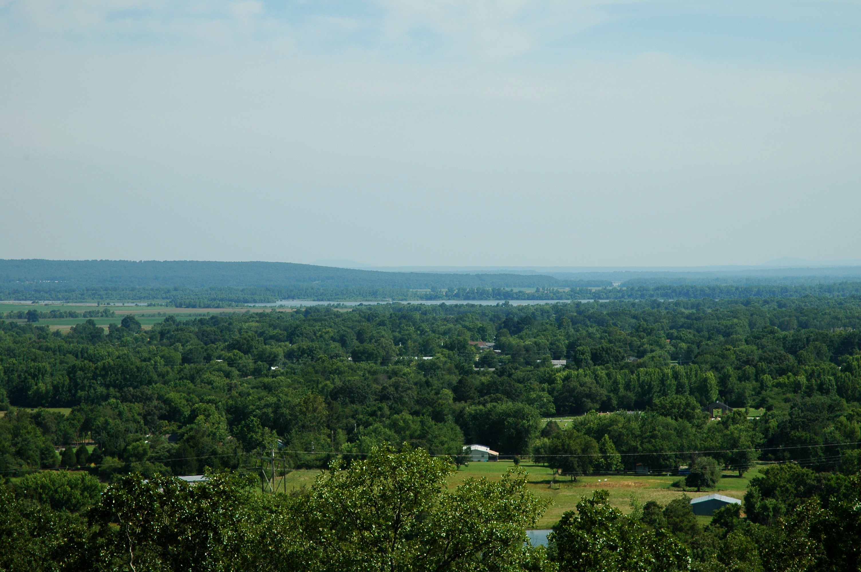 From flickr: The outskirts of Dyer and the river valley in the distance.